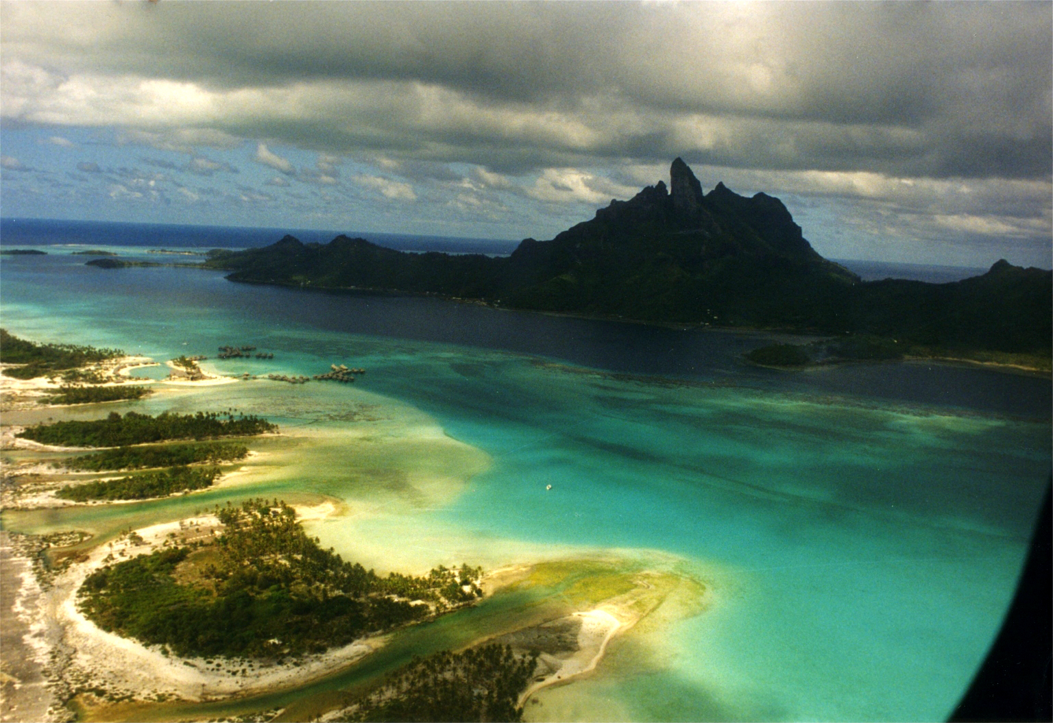 Bora-Bora. The image was taken from a plane. The image is a scan of my old print.The image was taken by Brocken Inaglory